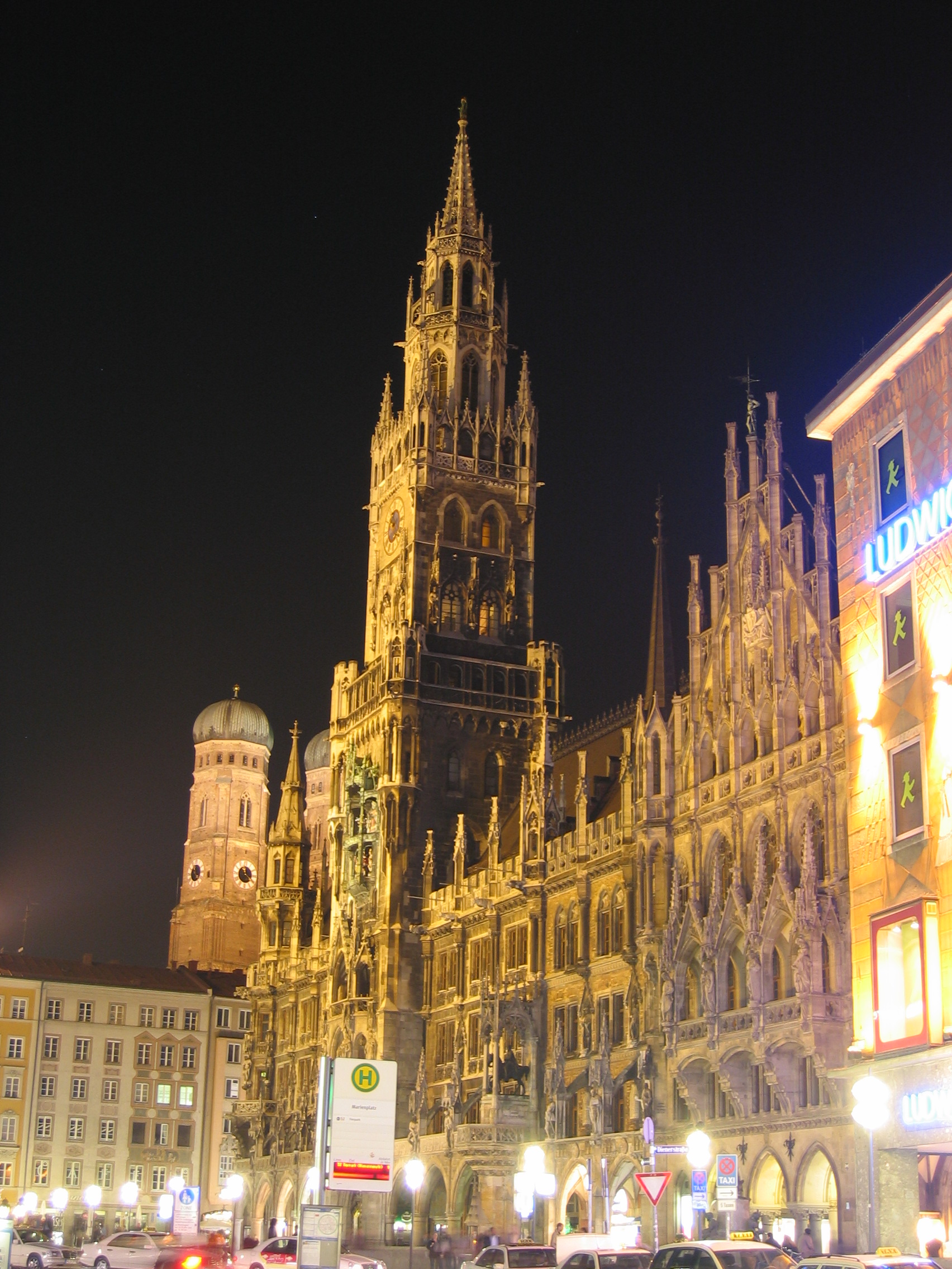 Munich Rathaus